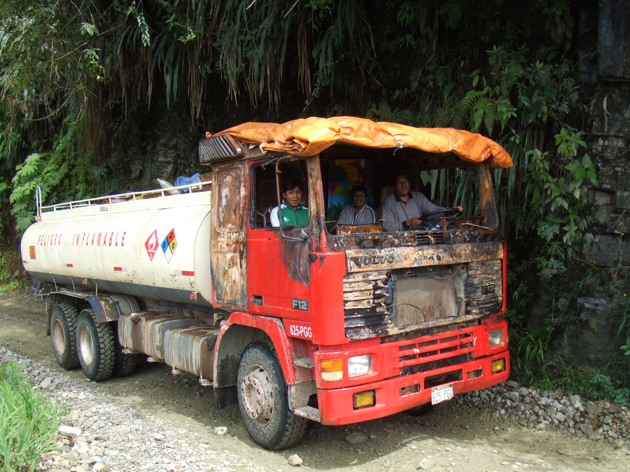 Fuel tanker, Volvo F12, Bolivia, South America